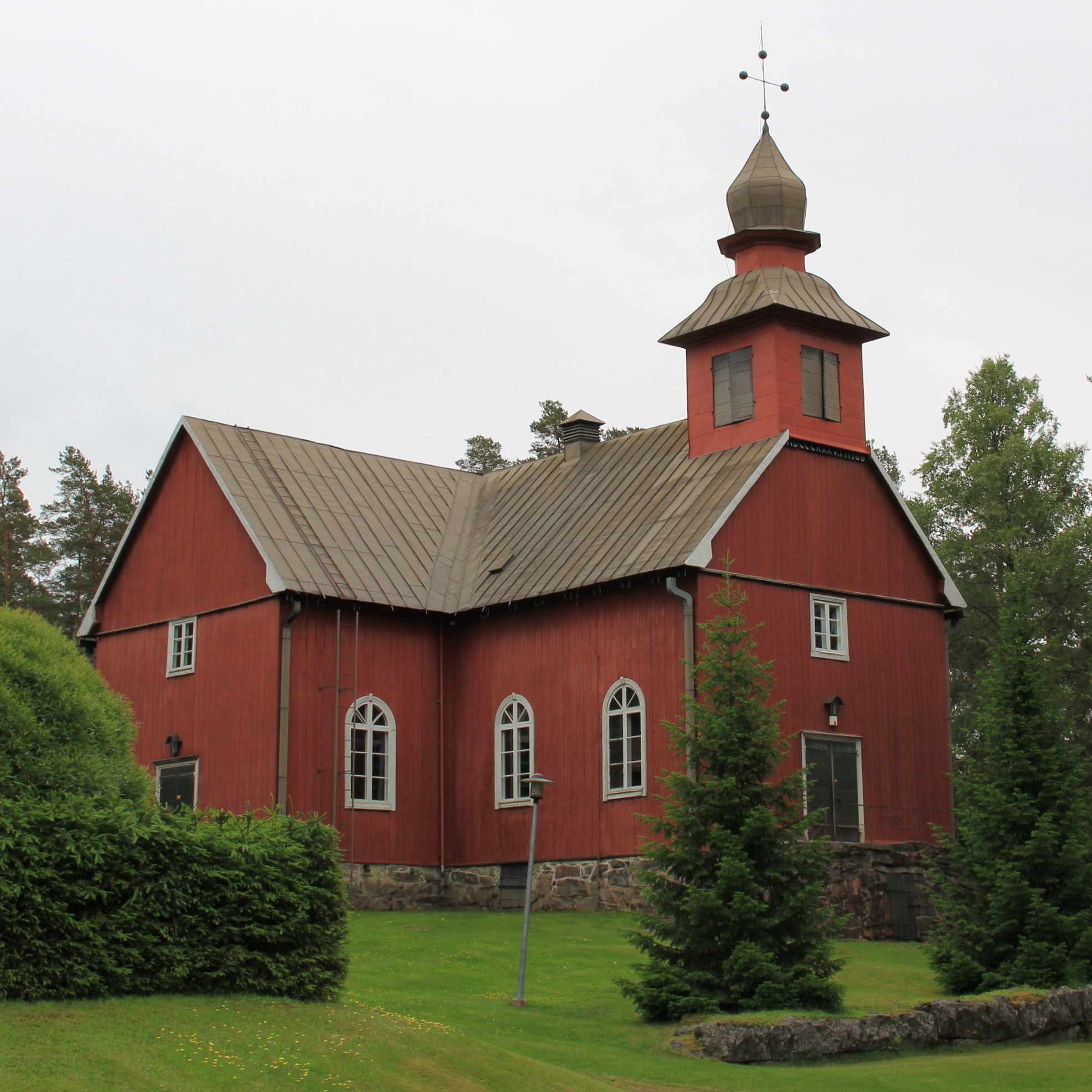 Karinainen church, Karinainen, Pöytyä, Finland. - Seen from northwest.